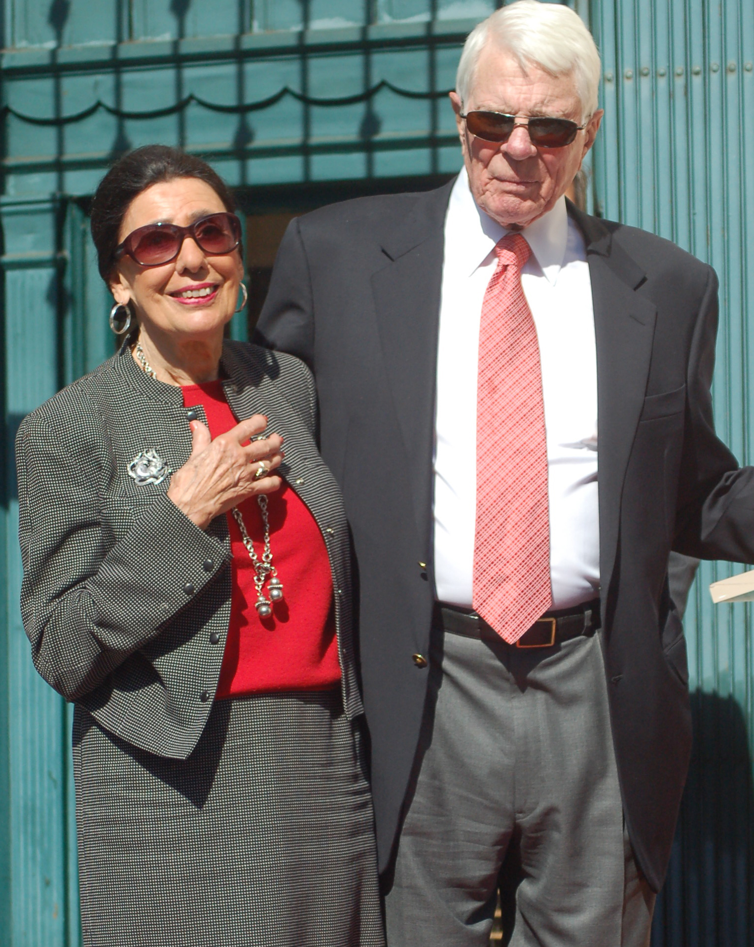 Peter Graves attending a ceremony with his wife, Joan Endress, to receive a star on the Hollywood Walk of Fame.